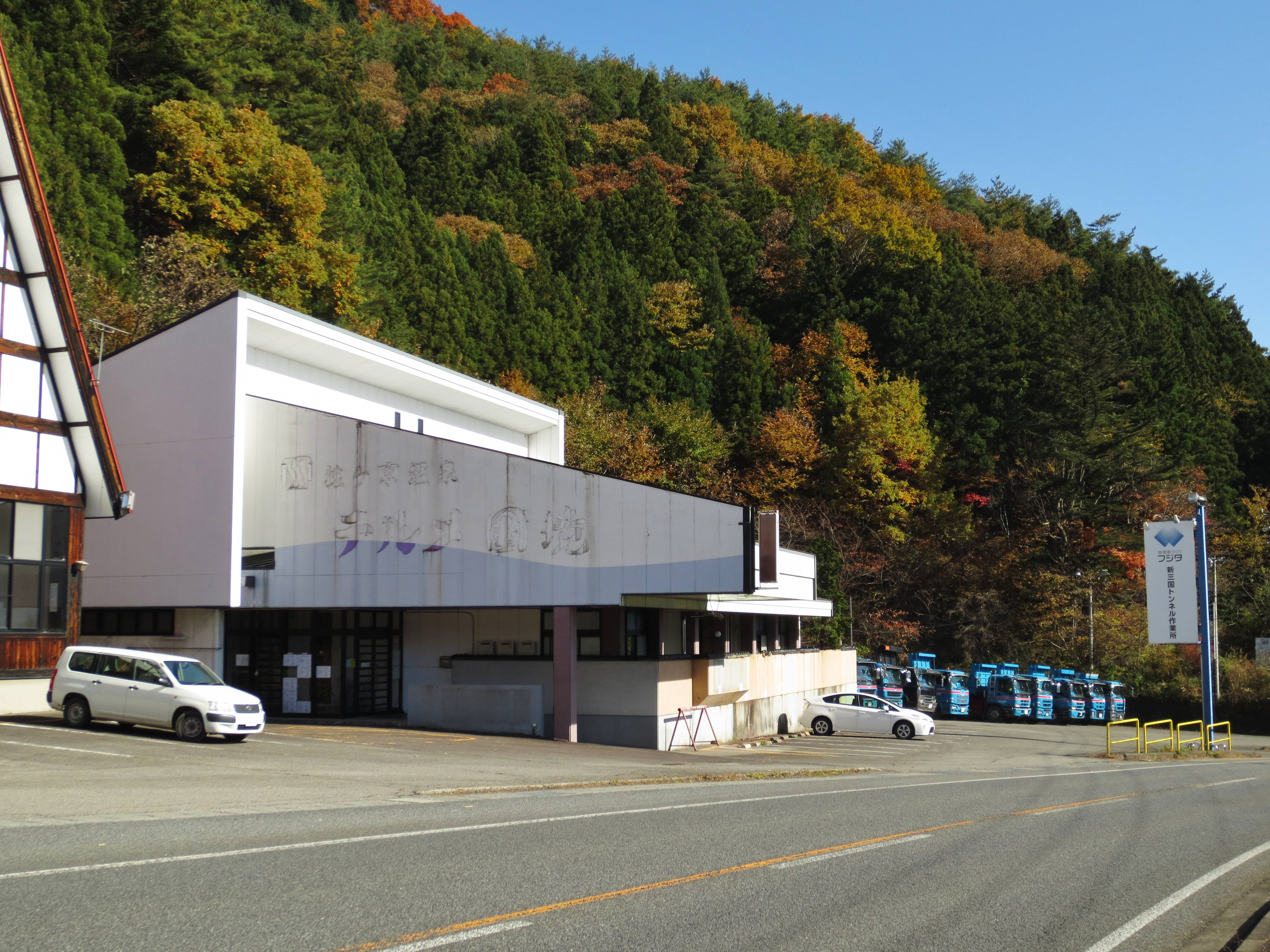 Terume Kokkyo.